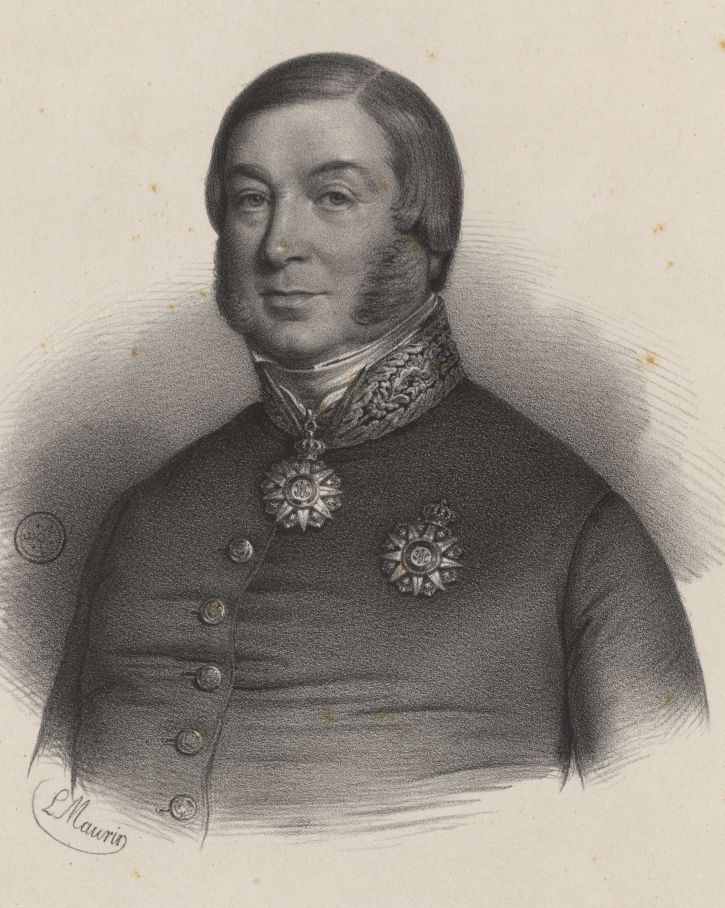 Lithography of Bernardo Gorjão Henriques.